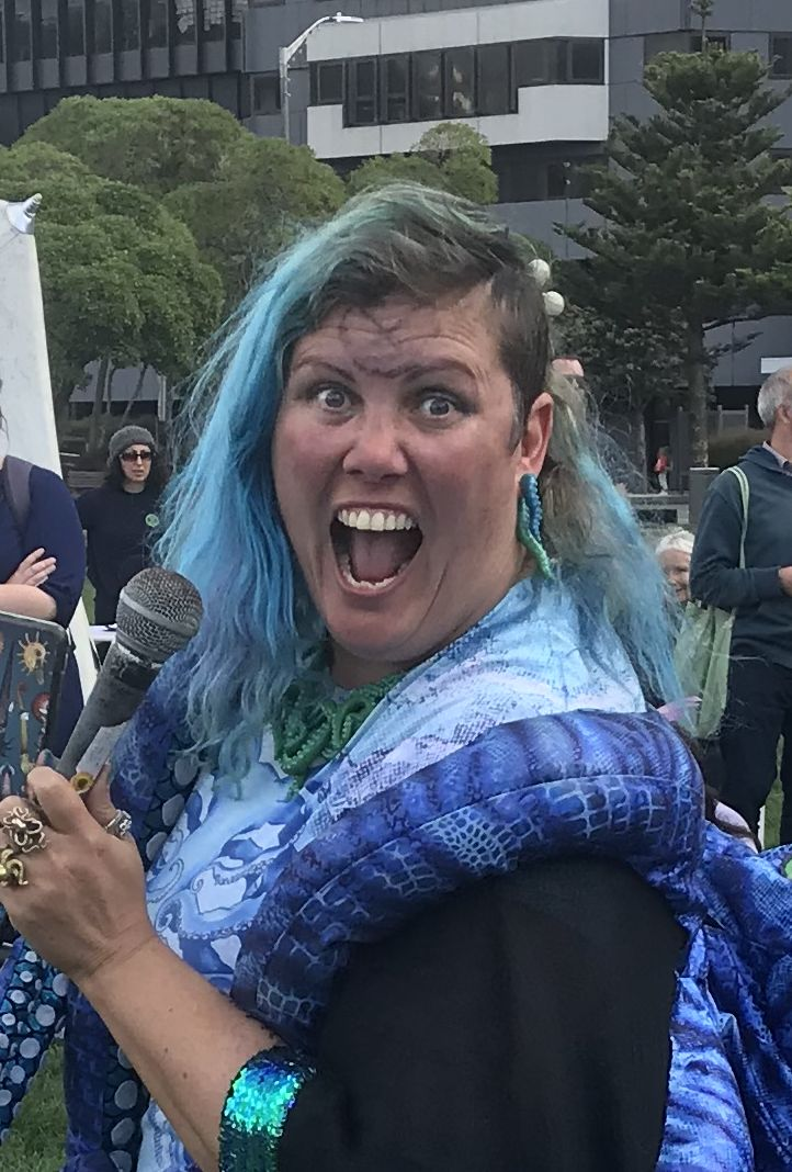 Dr Sea Rotmann